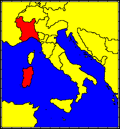 The Kingdom of Sardinia (1815)